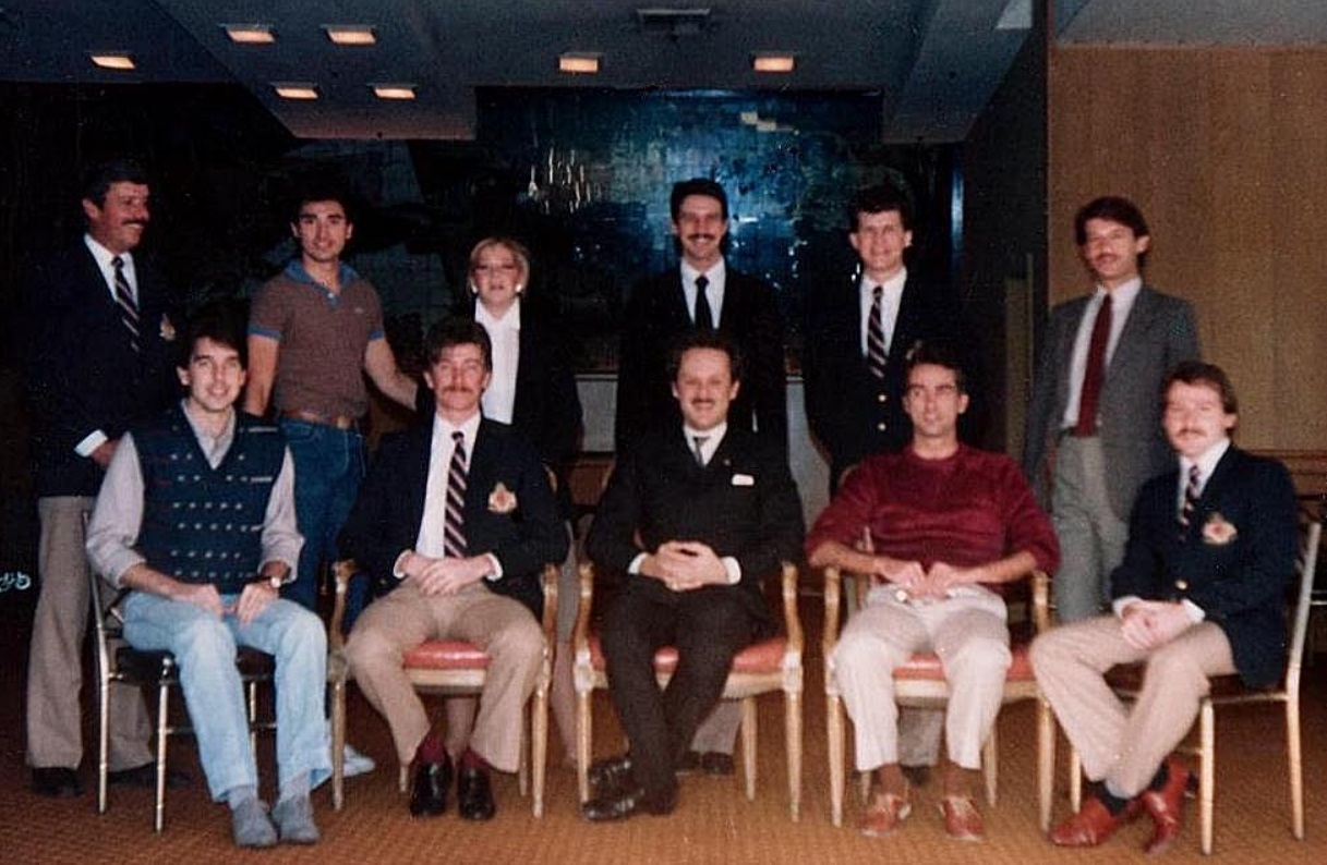 Beverly Hills Hotel front desk staff (l-r: James Ringwald, Brian D. Fields, Byron Cooper, Ronald Schaeg, Ginny Rankin, Jacob Demitz (Front Desk Manager), Tom Fuchs, Richard A. Wellerstein, Jack Telfer, Eric Johnson & Barry Estes), as released by image owner RistessonPlace: Persian Room, The Beverly Hills Hotel, 9641 Sunset Boulevard, Beverly Hills, California